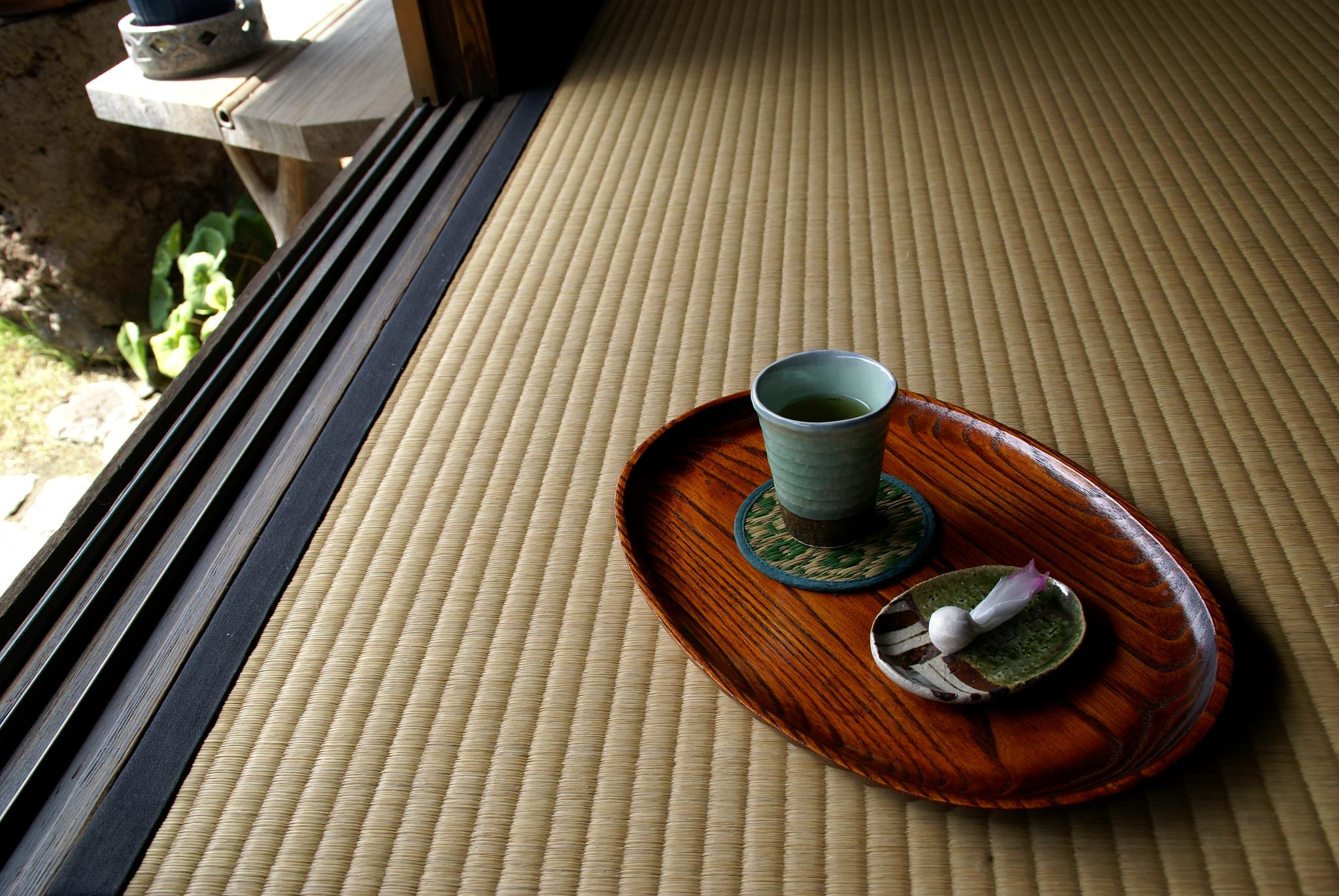 In Naoshima, Kagawa pref., Japan.